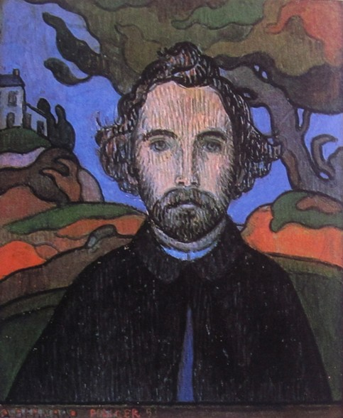 Portrait d'Emile Bernard